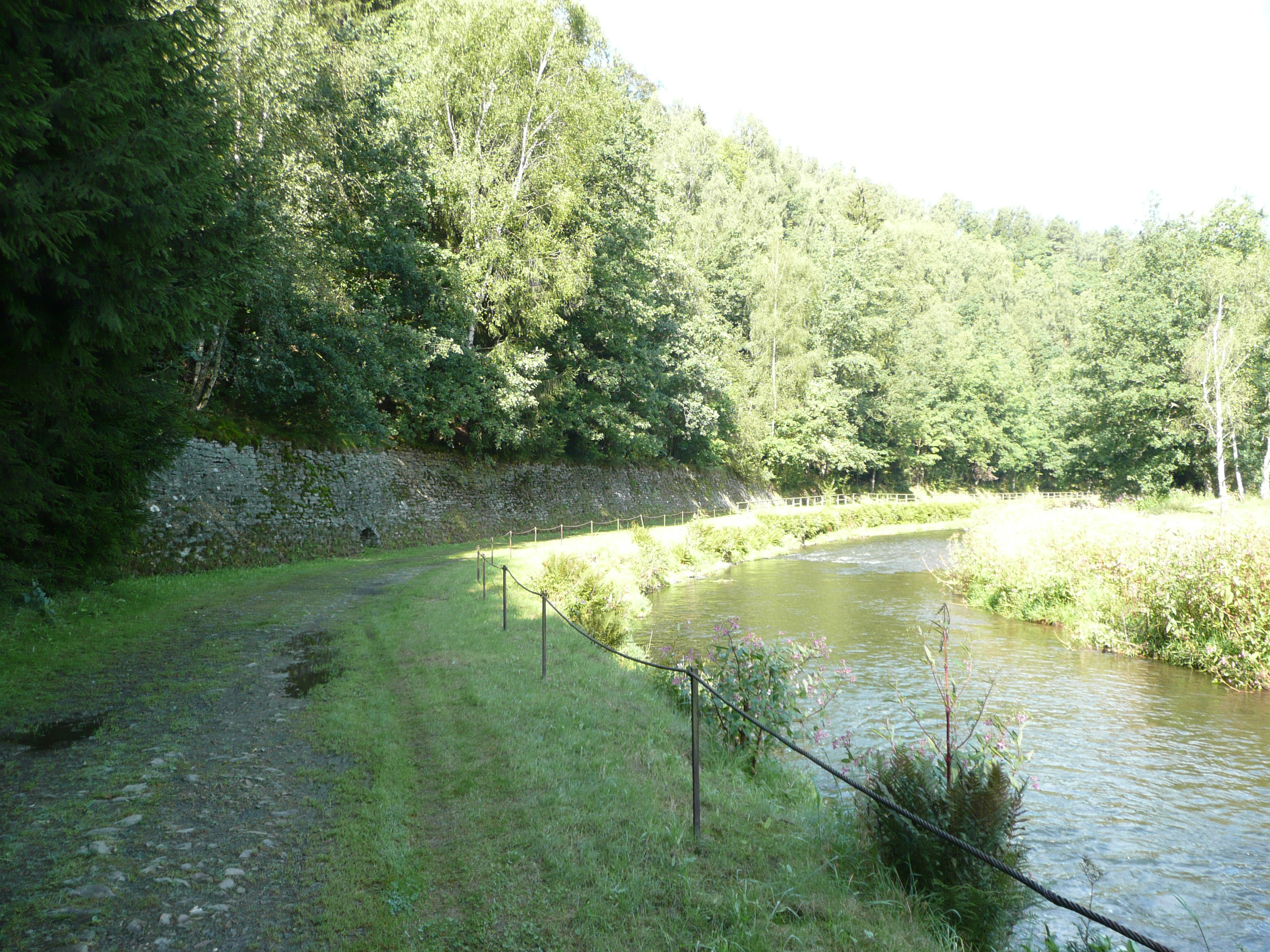 Christbescherunger Bergwerkskanal near Großvoigtsberg, Saxony